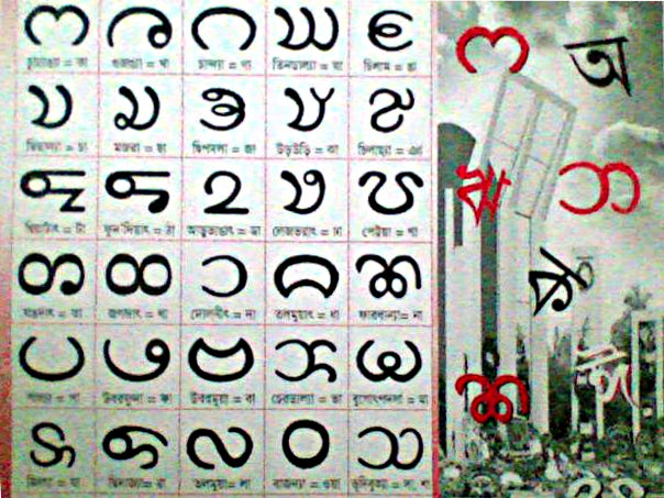 Chakma Letter